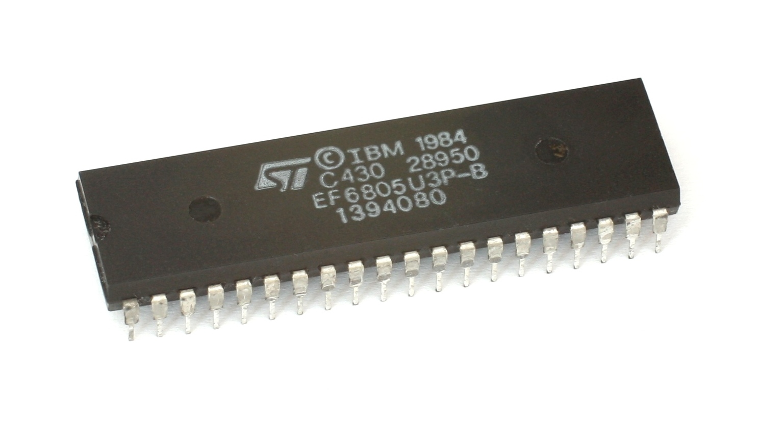 CPU STMicroelectronics ST6805.